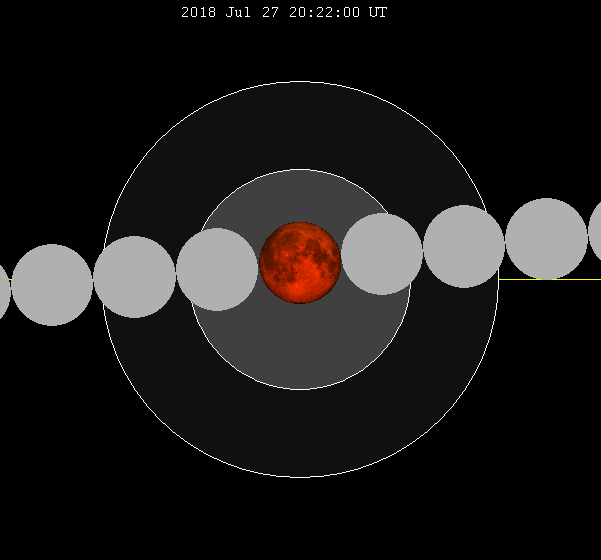 July 2018 lunar eclipse chart of moon's path through the earth's shadow. thumb